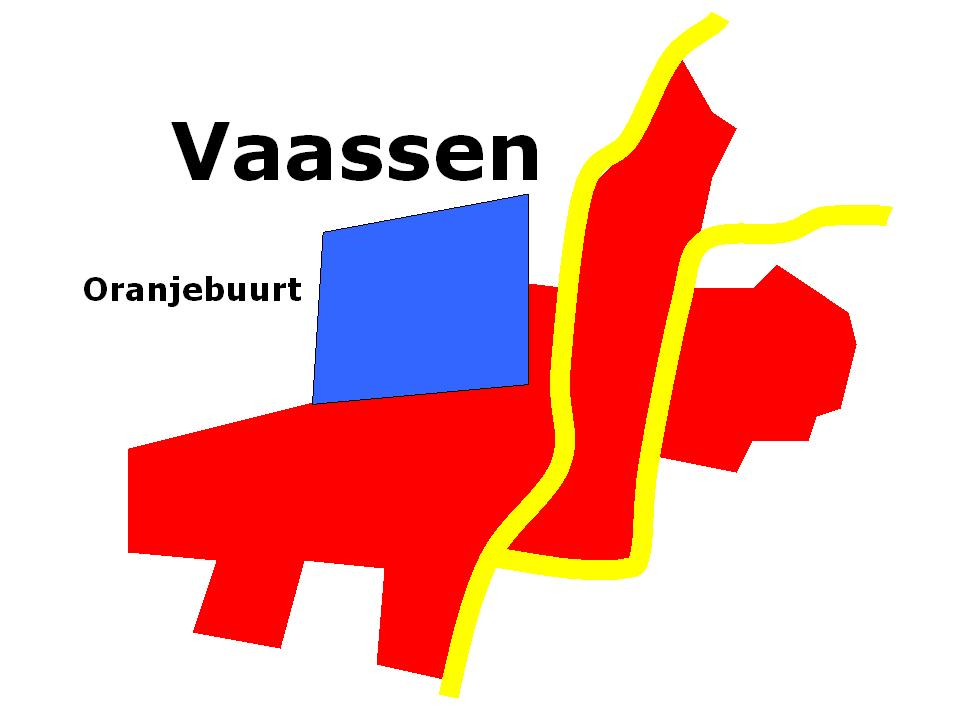 Location map of Oranjebuurt in Vaassen.